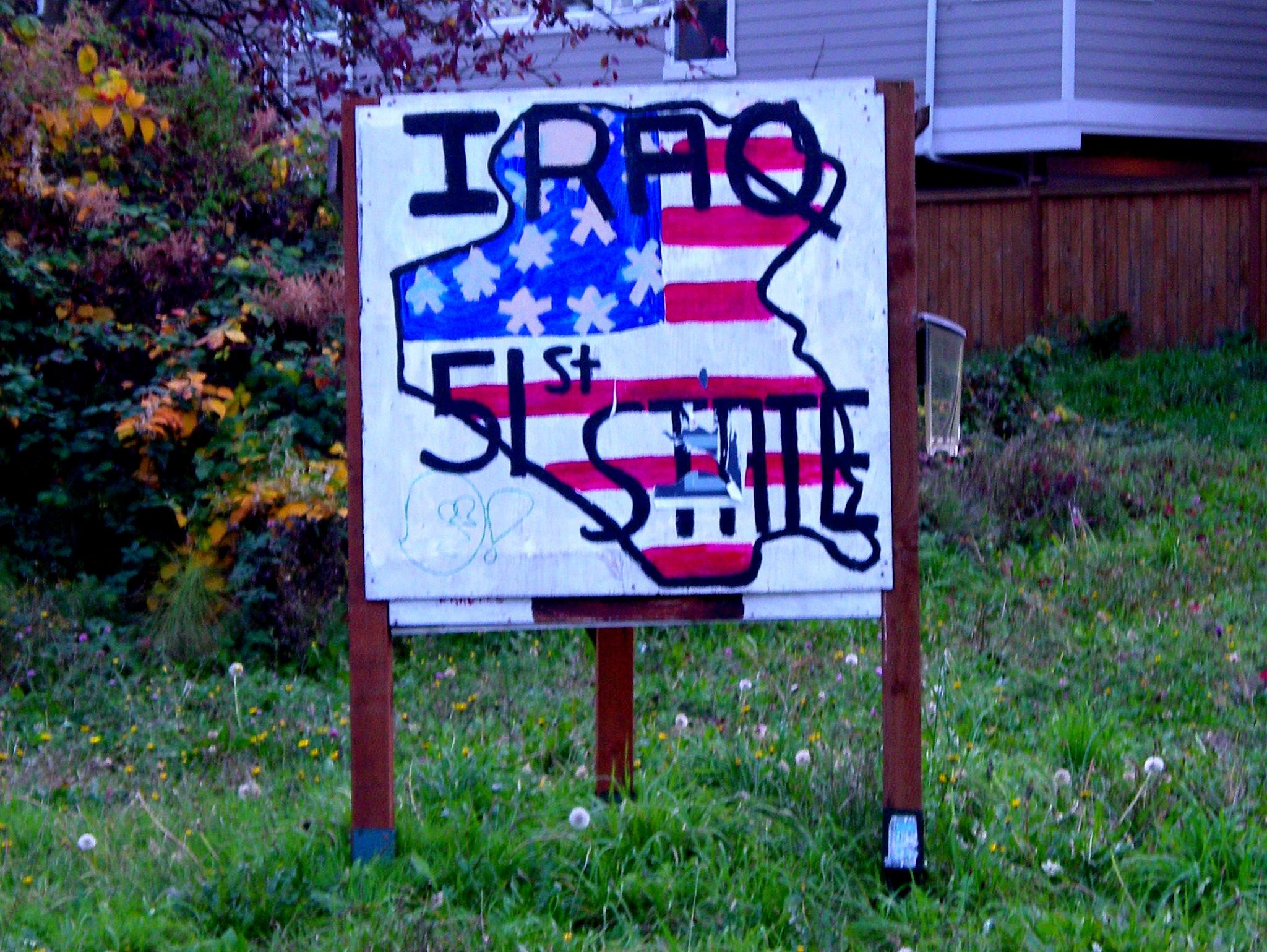 They get a bunch of free stuff just like Alaska! Sign is located at 23rd and Union in the Central District of Seattle